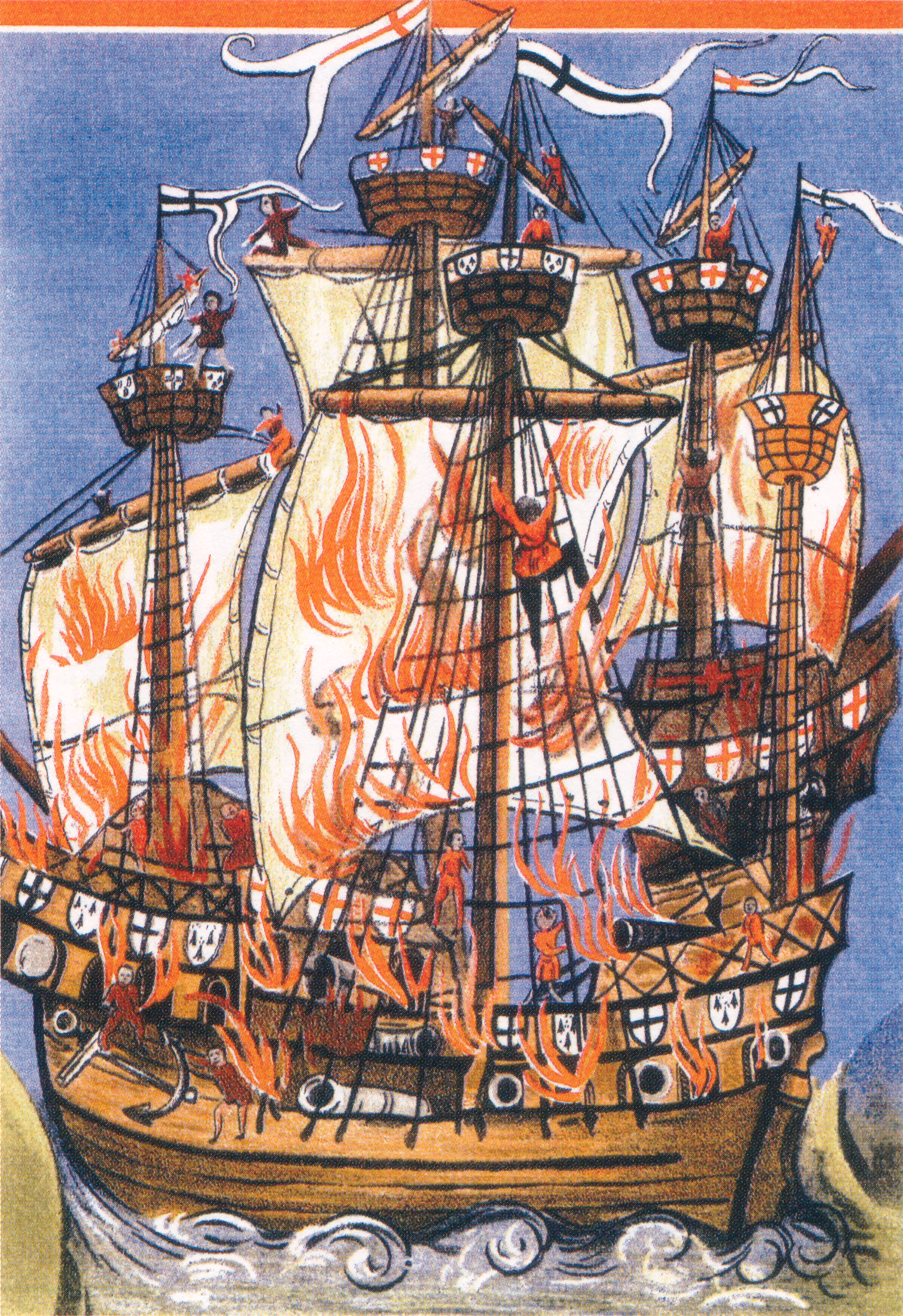 The French warship Cordelière and the English warship Regent ablaze at the battle of St. Mathieu on August 10 1512. Illustration for an epic poem in Latin written by the court poet Germain de Brie. "The Cordelière in the foreground of the picture and to windward of the Regent has one sloping and two vertical masts with round tops above which are topmasts carrying topsails. The sails are furled but the mainsail and the foresail are loose and are beginning to burn. The sides of the castles are fitted with a pavesade of shields some bearing the ermine of Brittany some white with a black cross. The streamers flying from the masts are of the same colours. The rigging of the Cordelière is correctly shown: we see distinctly the shrouds the lifts and the stays the artist has not forgotten to haul the bowline of the mainsail the upper part of the ports is round and the tops are stored with quarrels. The Regent is almost entirely hidden by the Cordelière however we can distinguish two of her three masts the mainsail and the mizen the foremast ought to be seen. Castles and tops are pavesaded with shields white with a red cross the streamers are similar. A few men are in the shrouds the French mariners wear red jackets and blue or black breeches."[1]